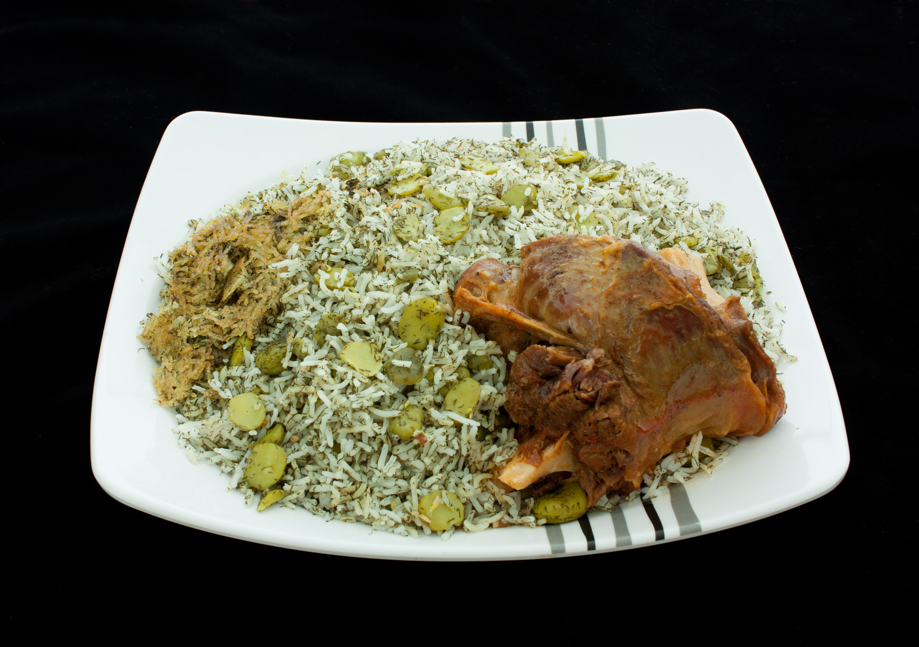 Baghala polo